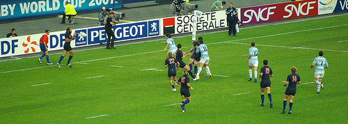 Sébastien Chabal is receiving the ball along the sideline. Picture taken during the 2007 rugby world cup opening match between France and Argentina.